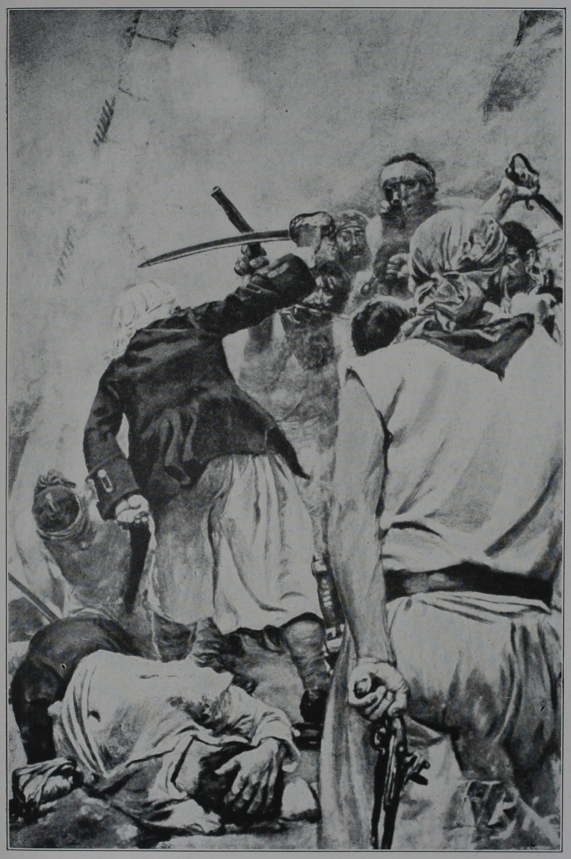 The Combatants Cut and Slashed with Savage Fury: Blackbeard and his gang engage in a savage fight on the deck of a ship. This was originally published in Pyle, Howard (1894) Jack Ballister's Fortunes, The Century Company The oil painting, which the illustration was of, was sold in 1895 under the title Blackbeard's Last Fight, and is currently part of the Delaware Art Museum's collection.[1][2]